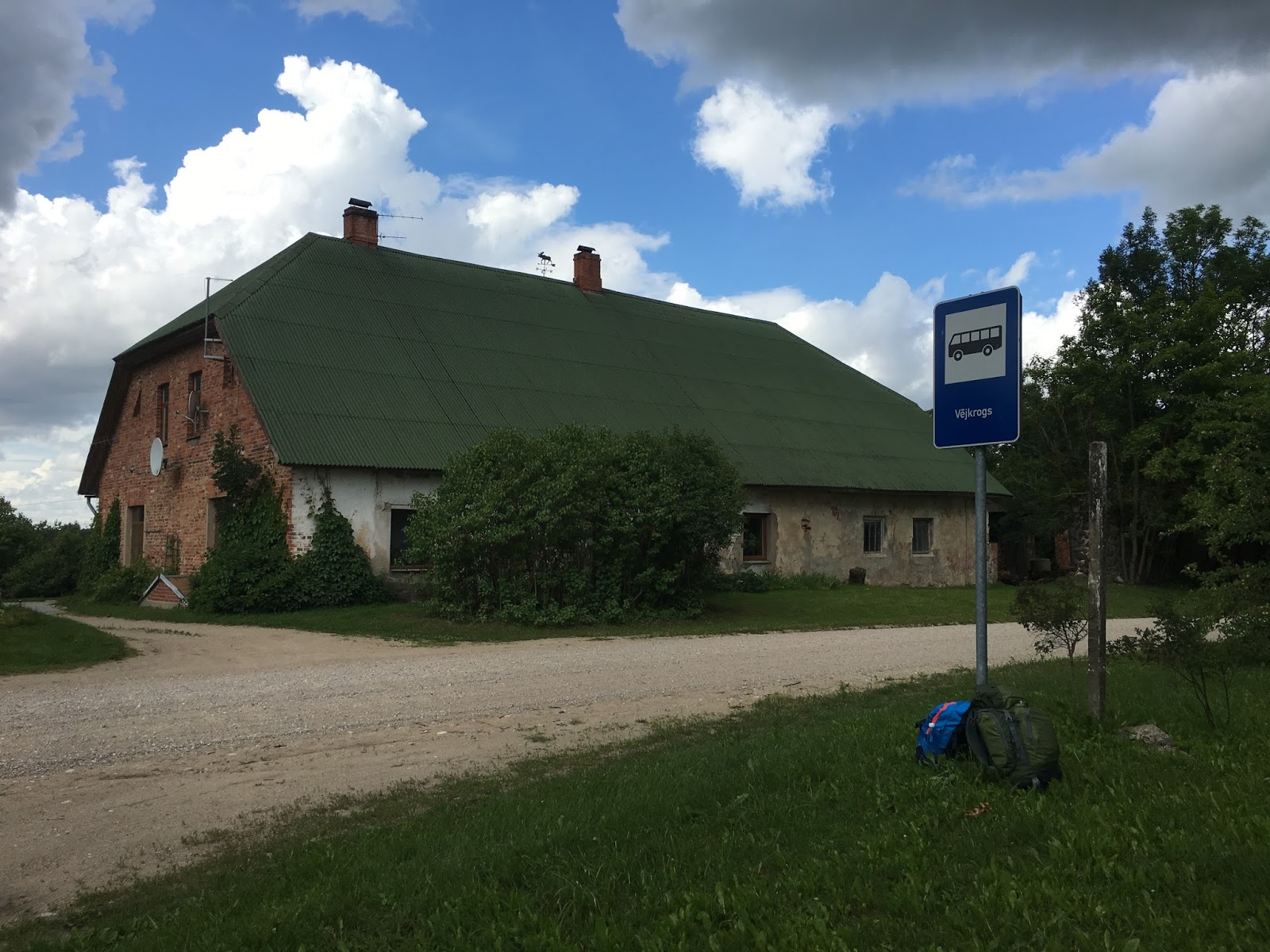 Tuule Inn (Vējkrogs) in 2016